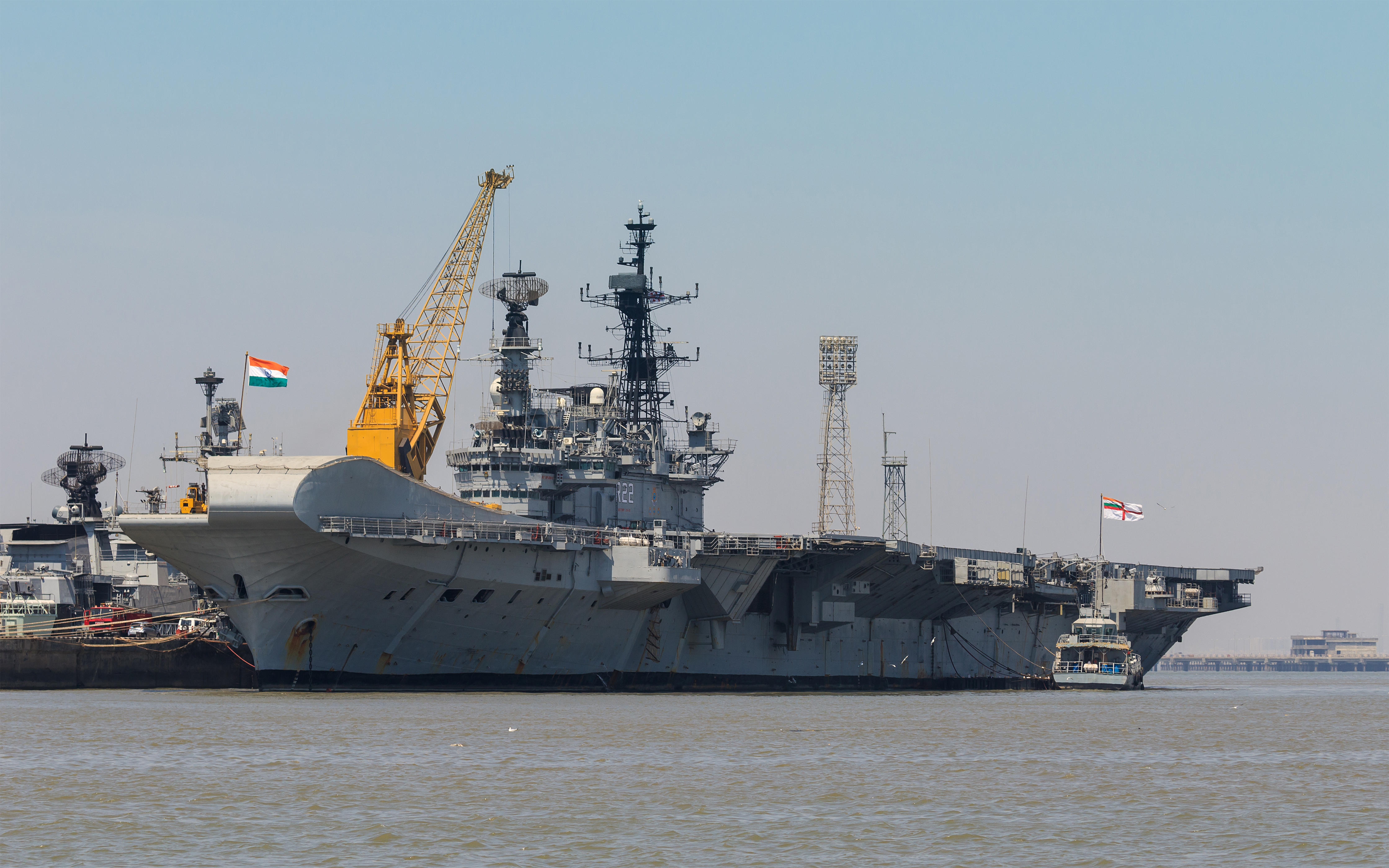 Ship at Mumbai Harbour. Taken from Mumbai-Elephanta ferry. Maharashtra, India.